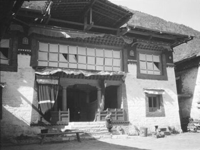 Dungkar Monastery, 6 miles to the north of Yatung. This is the entrance to the main shrine room with the house of the Abbot on the right. Hopkinson visited this monastery on January 30th, by way of Galingka Village and the new home of the Yatung Oracle